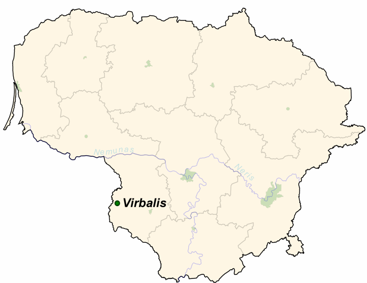 Virbalis on the map of Lithuania